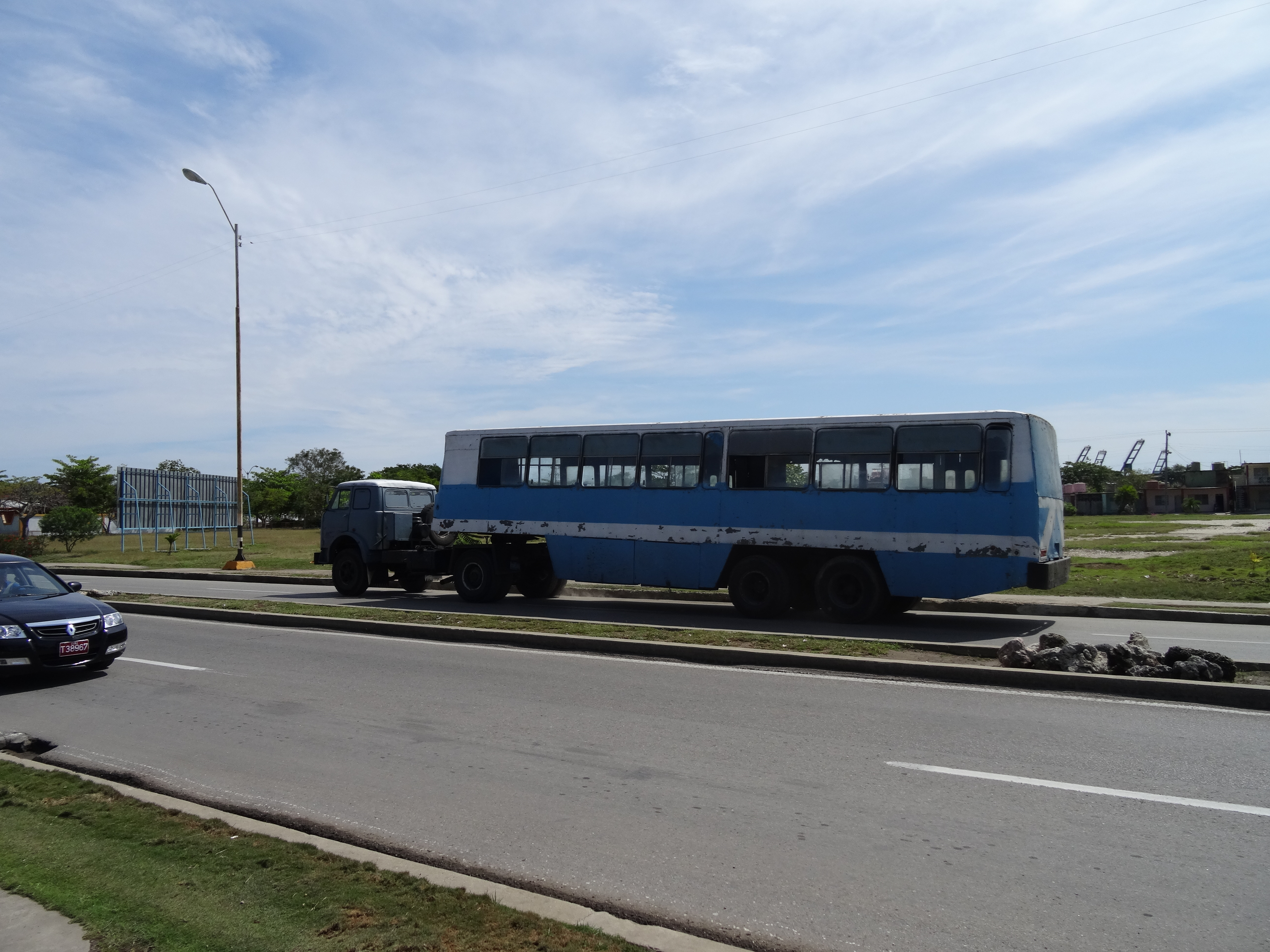 Cuba, Girón trailer bus in Cienfuegos